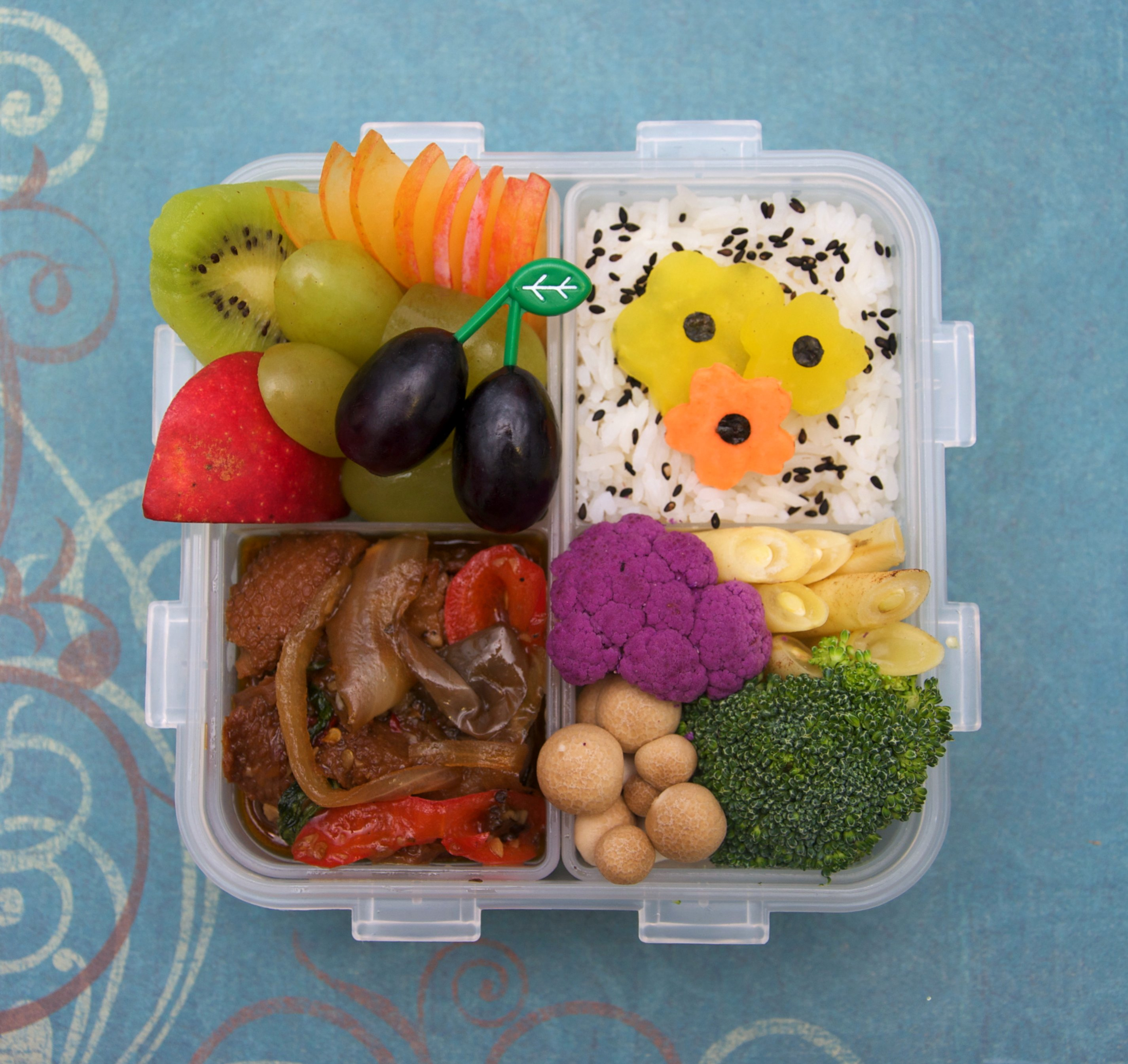 Imitation duck bento box